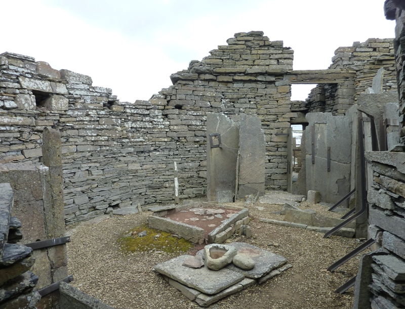 Midhowe Broch, Rousay, Orkney, Scotland - southern part of interior